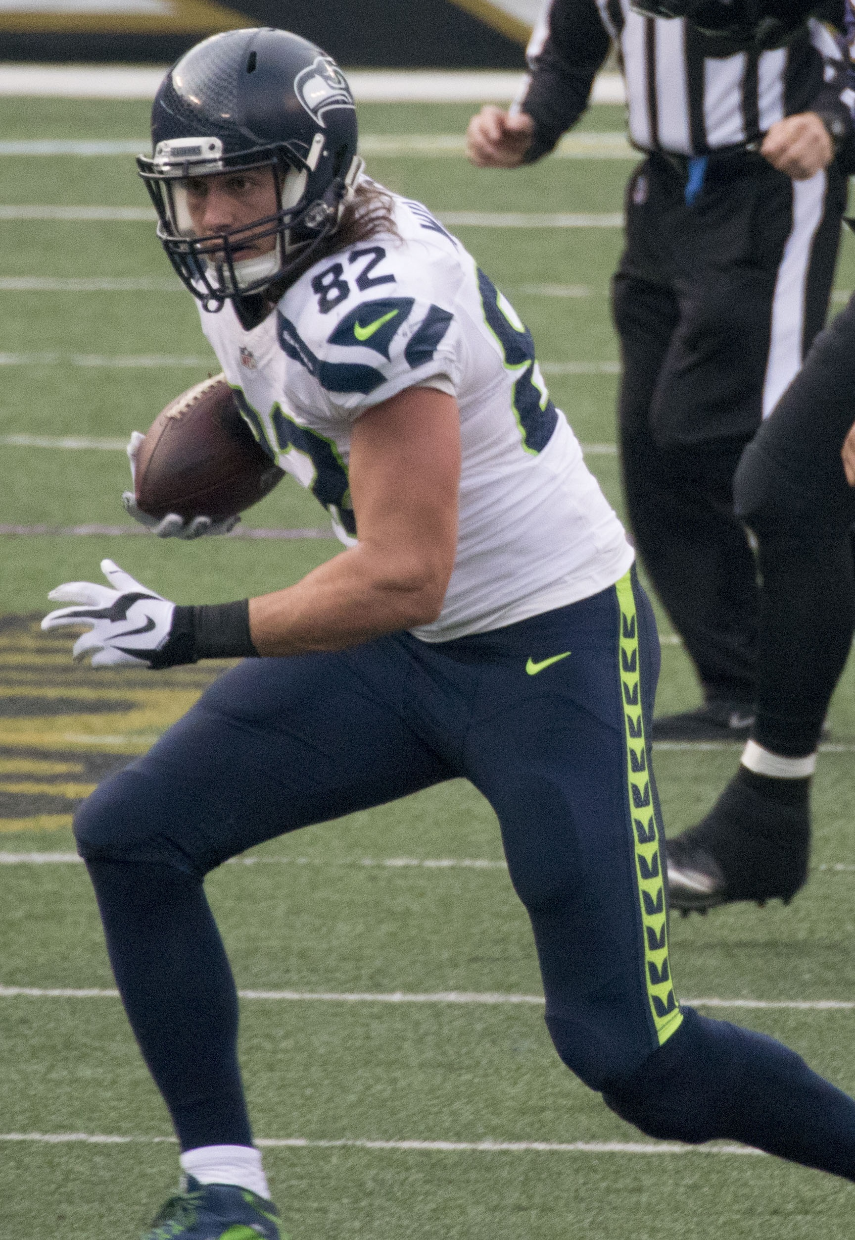 Seahawks at Ravens 12/13/15